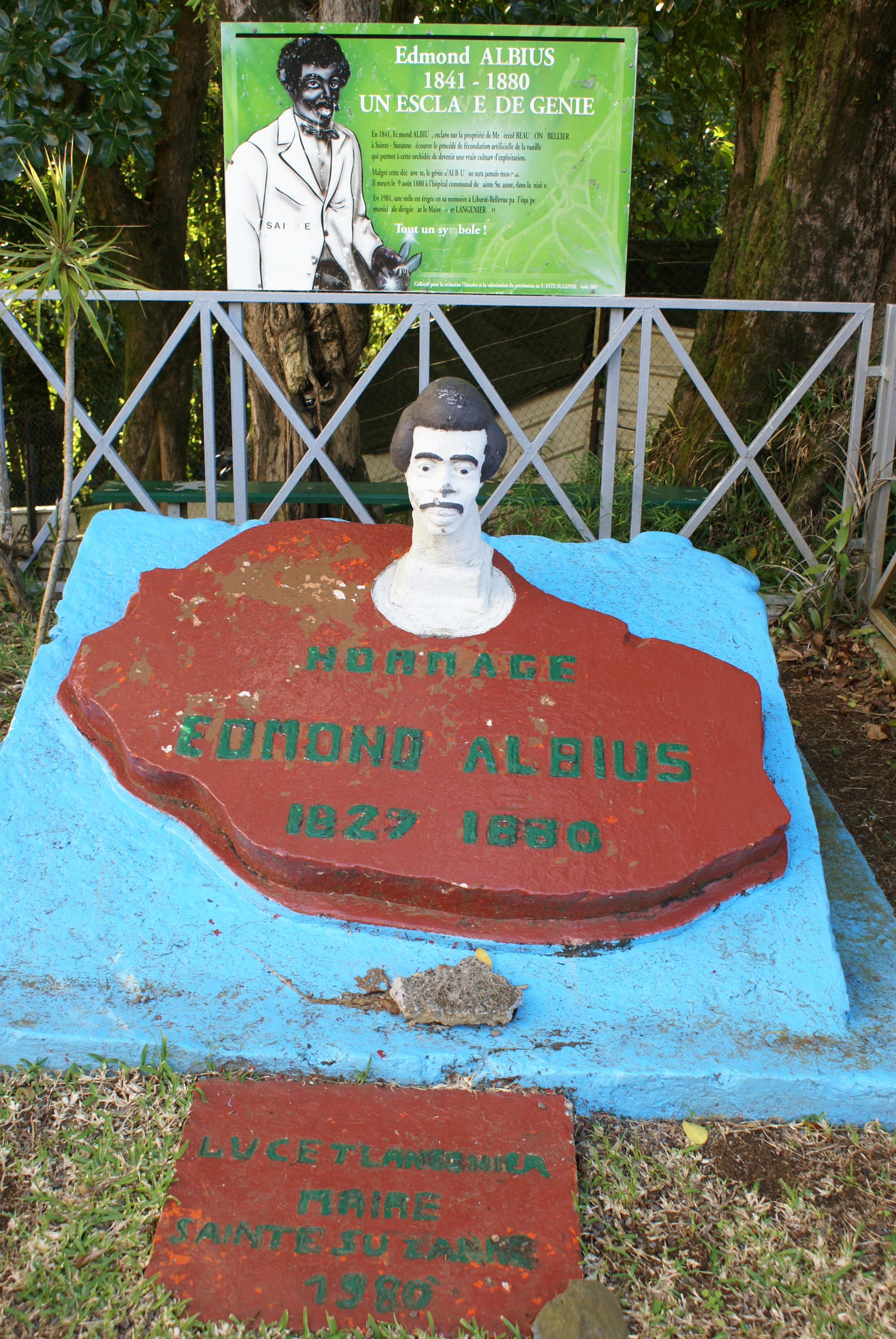 The touching but miserable only commemorative monument on Réunion Island to Edmond Albius, the boy who discovered how to fertilize vanilla flowers, so made the wealth of so many traders but was never gratified for that.